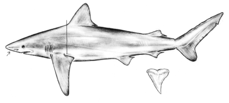 Bignose shark (Carcharhinus altimus), from Grace, M. (2001). "Field Guide to Requiem Sharks (Elasmobranchiomorphi: Carcharhinidae) of the Western North Atlantic". NOAA Technical Report NMFS 153.